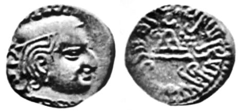 Western Satrap Damajadasri III